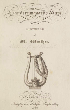 From the romantic garden at Sanderumgård, Odense, Denmark